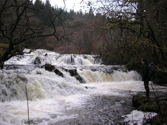 Avich Falls Well worth going out of your way to see